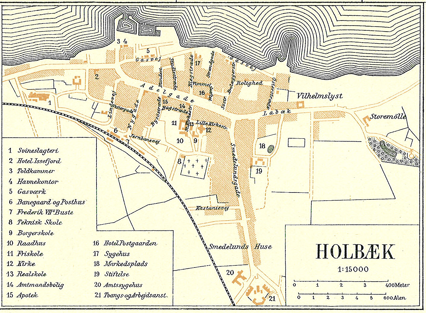 Map of Holbæk County in Denmark